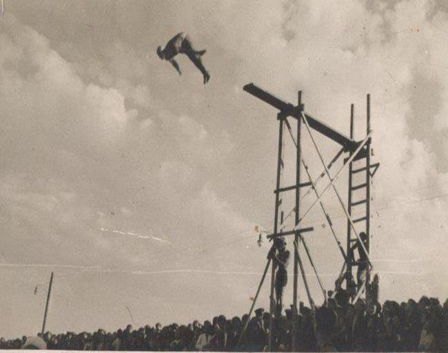 Kercim nga trampolina